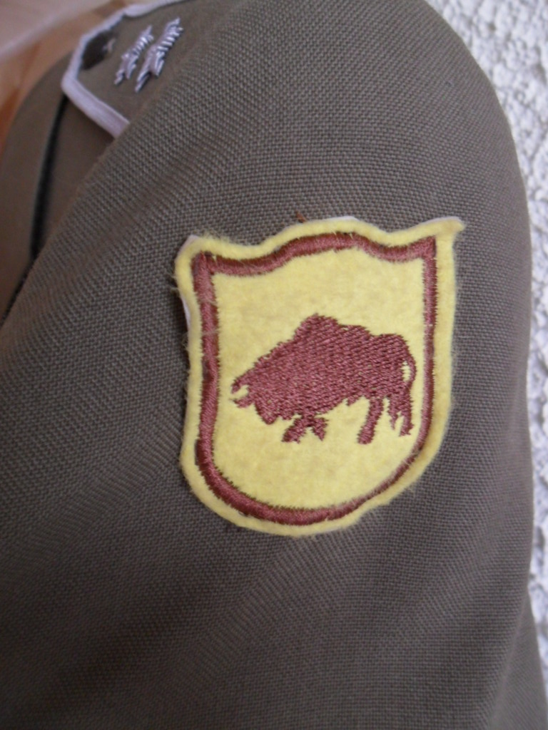 Plaque of bison